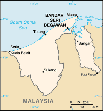 A map of Brunei, showing major cities.